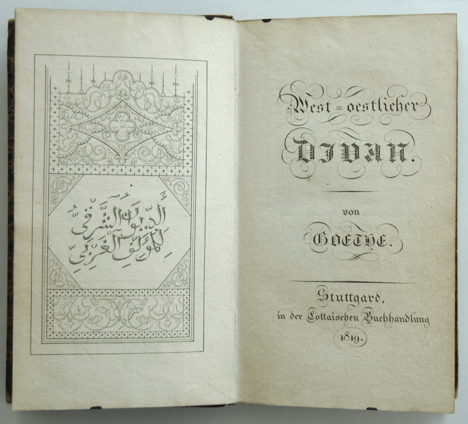 Title page and frontpage from the "West-östlicher Divan" by Johann Wolfgang von Goethe, 1819. Copperplate by C. Erner. The inscription in Arabic reads "the Eastern Diwan of the Western composer".